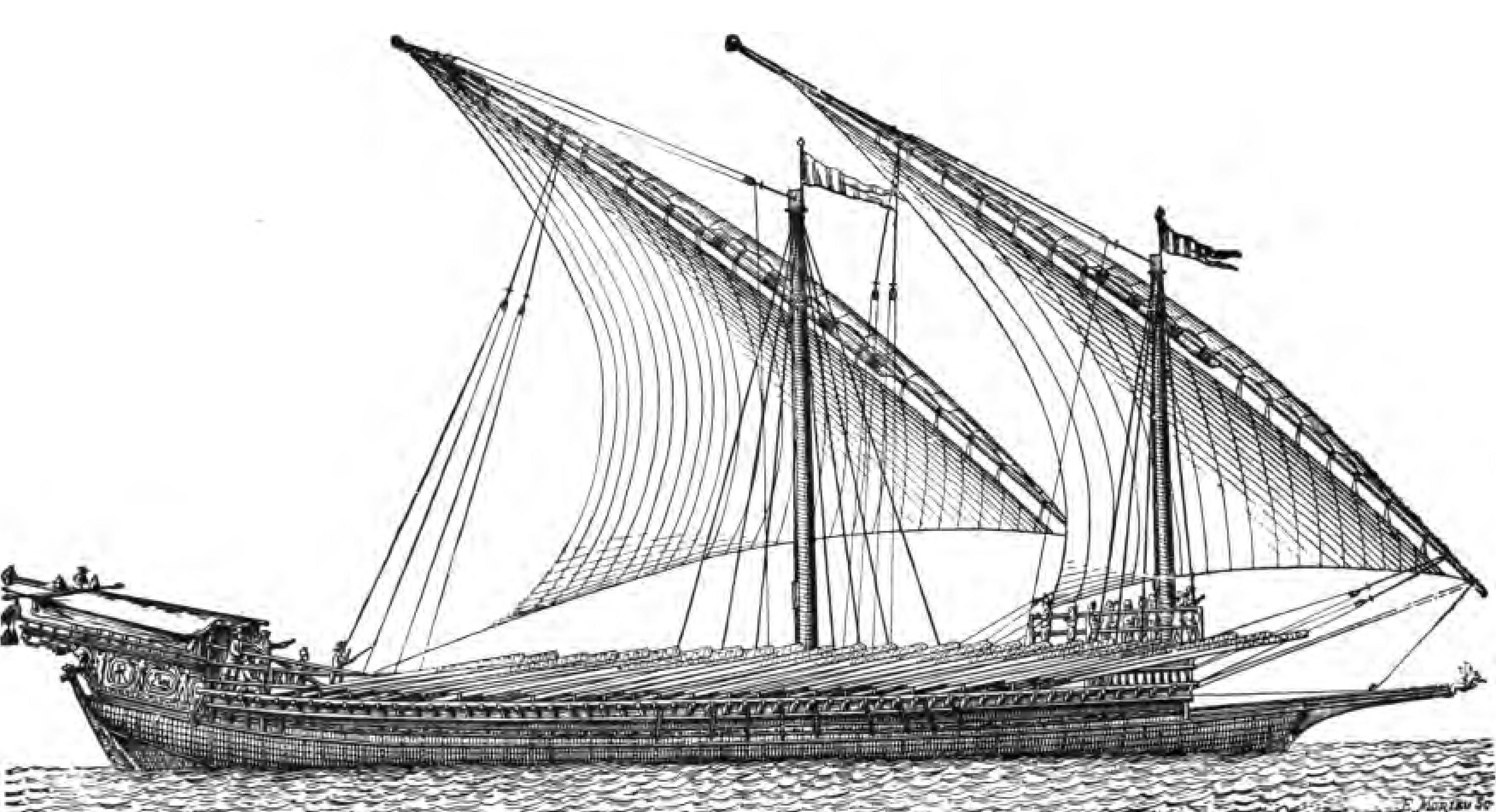 Illustration of a galley running before the wind, found in The Story of the Barbary Corsairs' by Stanley Lane-Poole, published in 1890 by G.P. Putnam's Sons.